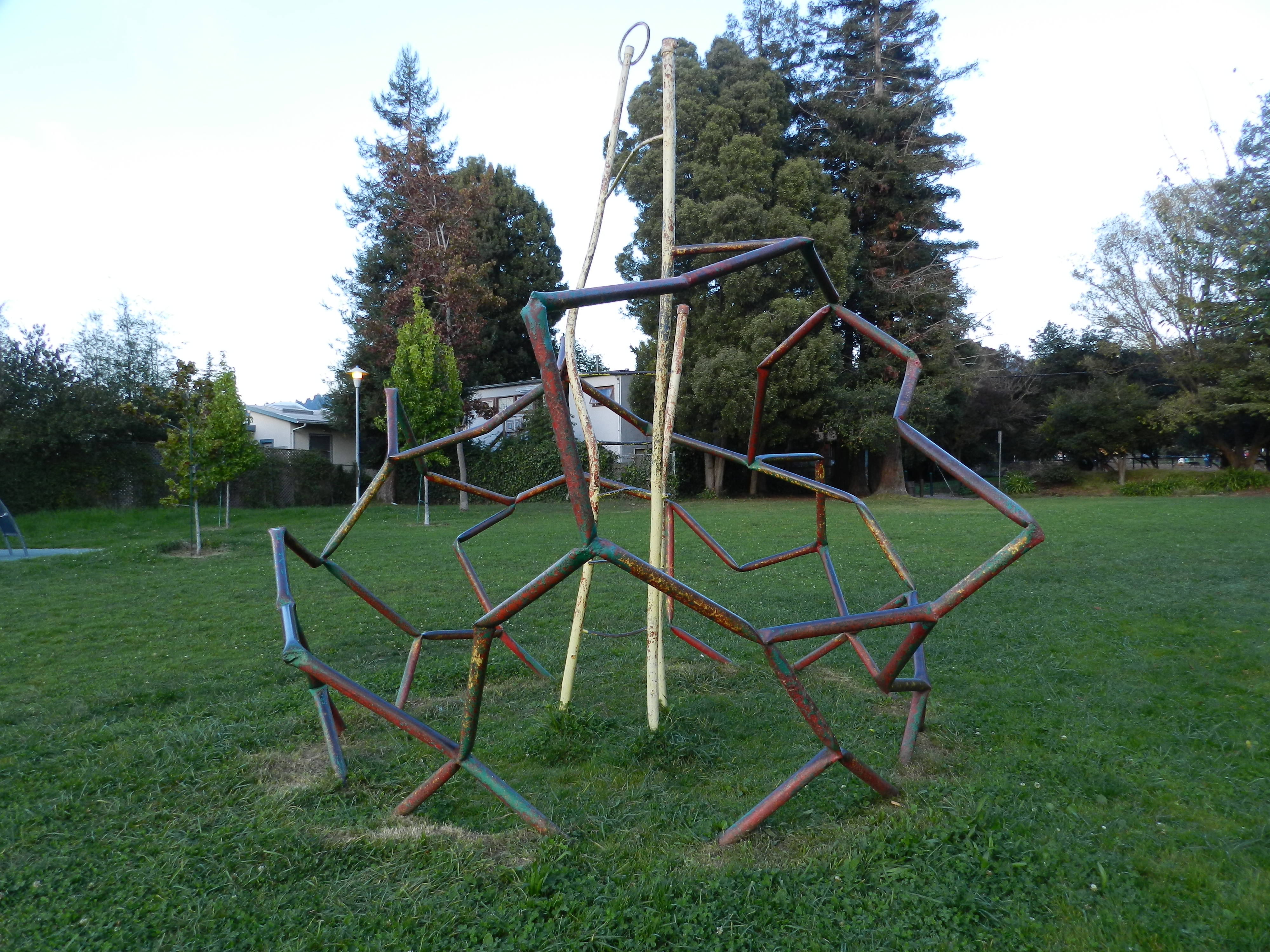 Amateur jungle gym, built during the People's Park Era, Ohlone Park, Hearst Avenue, Berkeley, California